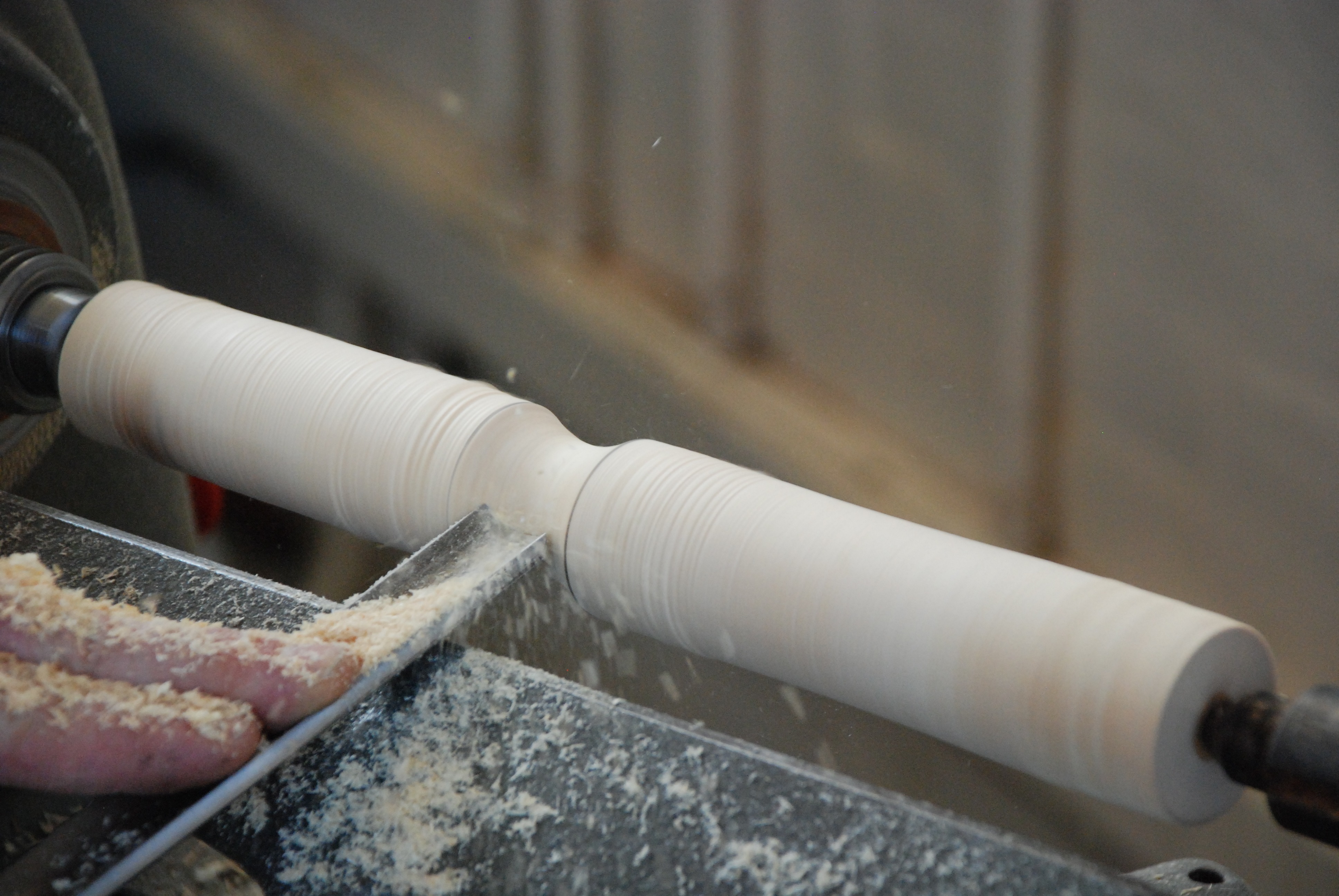 As part of the required course knowledge pupils need to be able to outline the process involved in taking a square wooden blank and preparing it for turning between centres. These pictures depict that process chronologically. Stage 1 * Preparation of wooden blank. Cut to size. Sand square. Mark across diagonals. Centre punch the centre point. Use spring dividers to mark circumference. Repeat on other end. Stage 2 * Plane off corners down to circumference line. This takes cross section from square to octagon. This reduces force on cutting toll in initial prep of blank. Mount between fork [driven] centre and dead [or live ] centre at tailstock end. Apply grease a dead centre end. apply force from tailstock end to force fork into material at driven end. Adjust toolstock height to suit. Check for clearance. Stage 3 * Roughout using scraper to diameter. Use combination of gouges and skew chisels to add beads and other decorative detailing as required. Ensure spindle speed is appropriate for material and cross section under consideration. Obey all safety instructions.